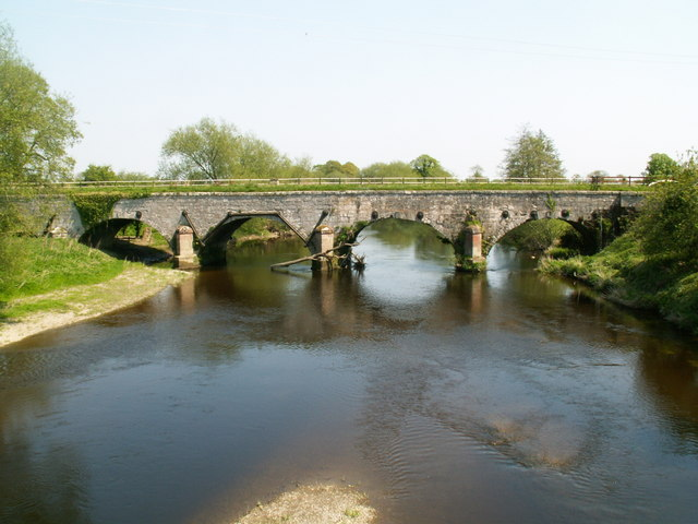 Montgomery canal. The Montgomery Canal crossing the River Vyrnwy. The aqueduct collapsed during construction in the 1790's and needed iron bracing to keep it together.